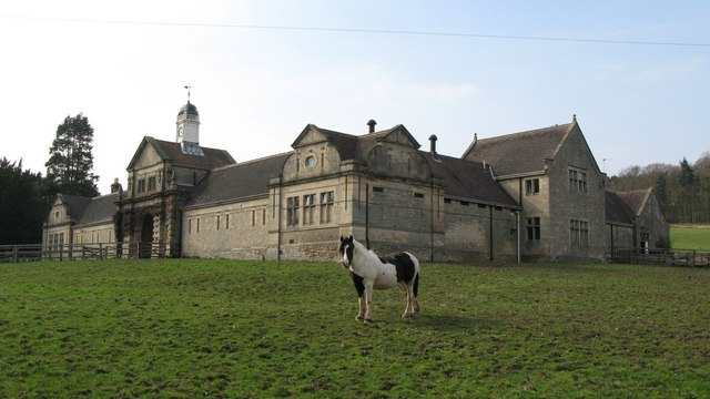 Chesters Stud & Chesters Feed Supplies